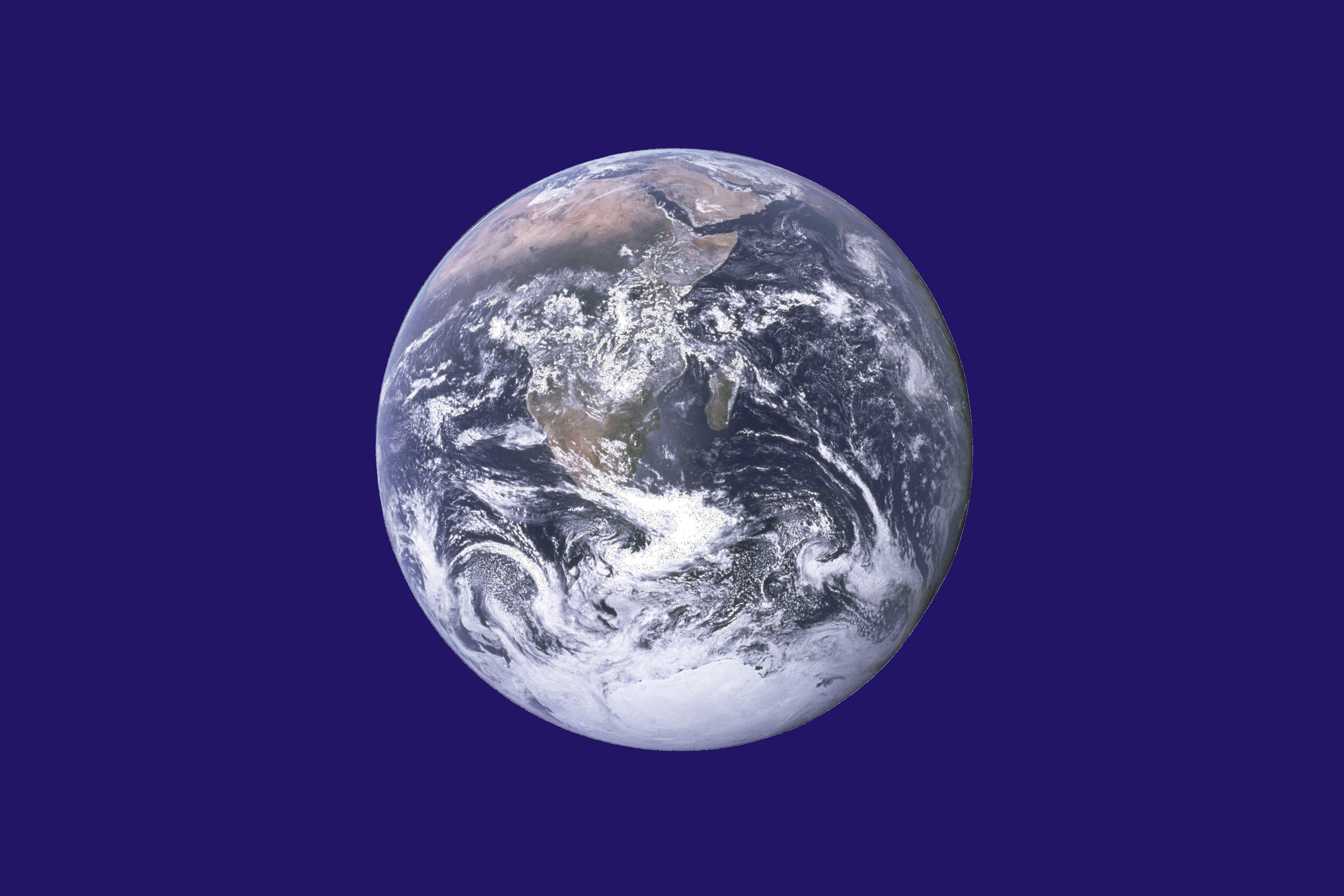 Higher-quality PNG version of John McConnell's Earth Day flag, based on this photograph. Requested at the English Wikipedia Graphics Lab.